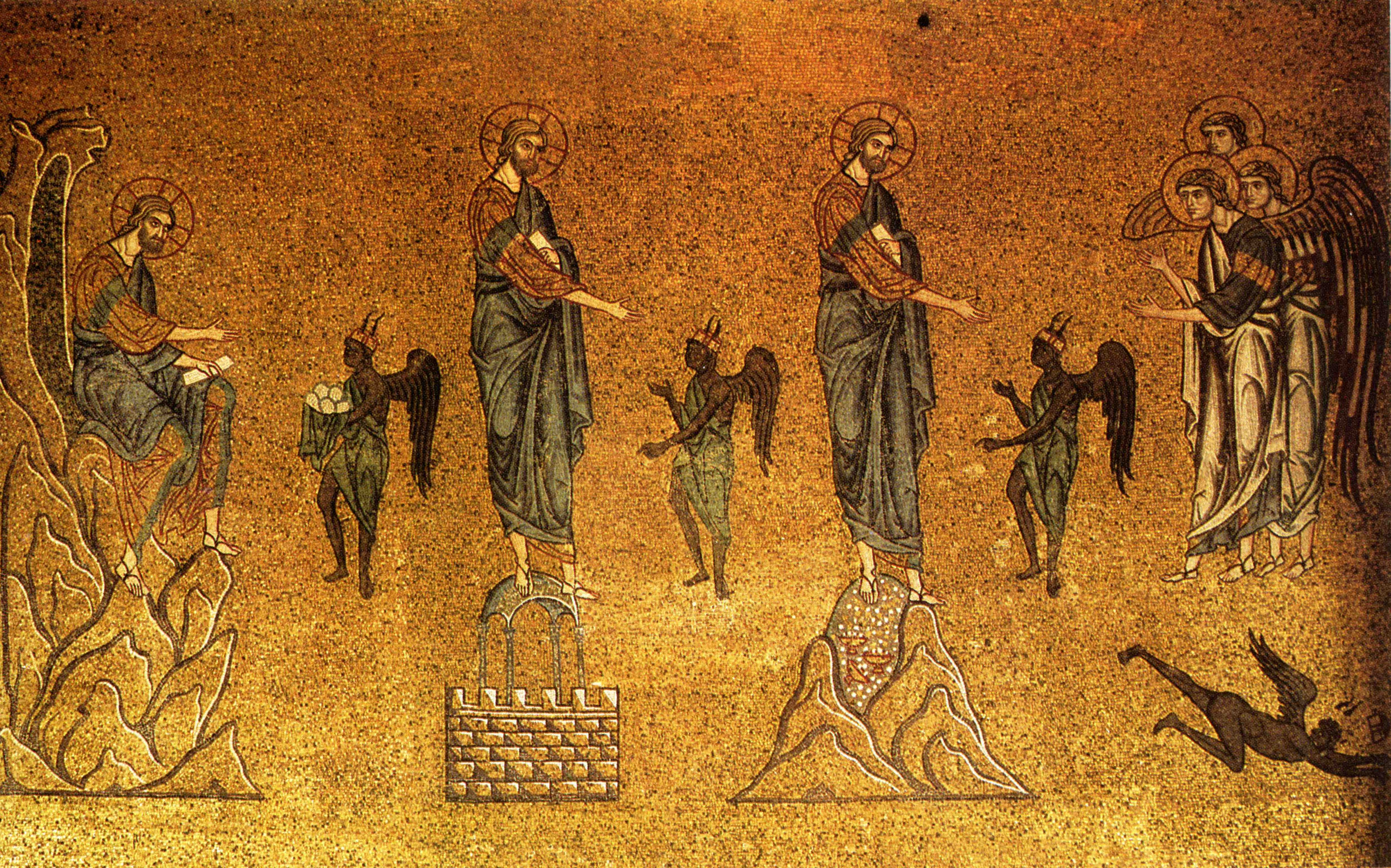 Temptation of Christ (mosaic in basilica di San Marco)